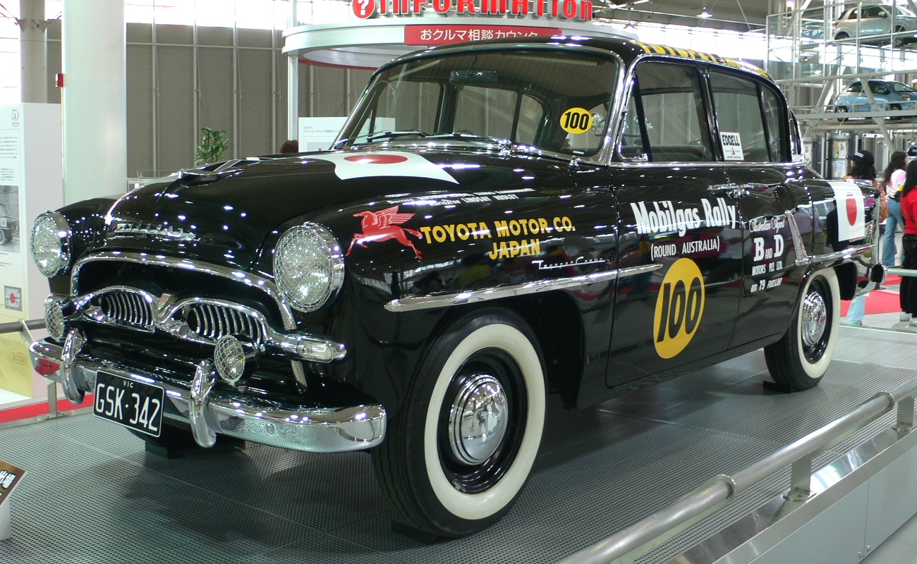 Toyopet_Crown(1st generation Crown that entered the Australia Mobilgas Rally in 1957)(replica)